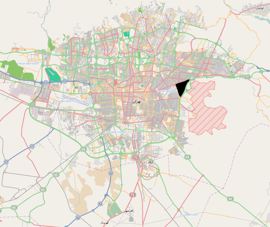 Tehranno in Tehran map (Black)